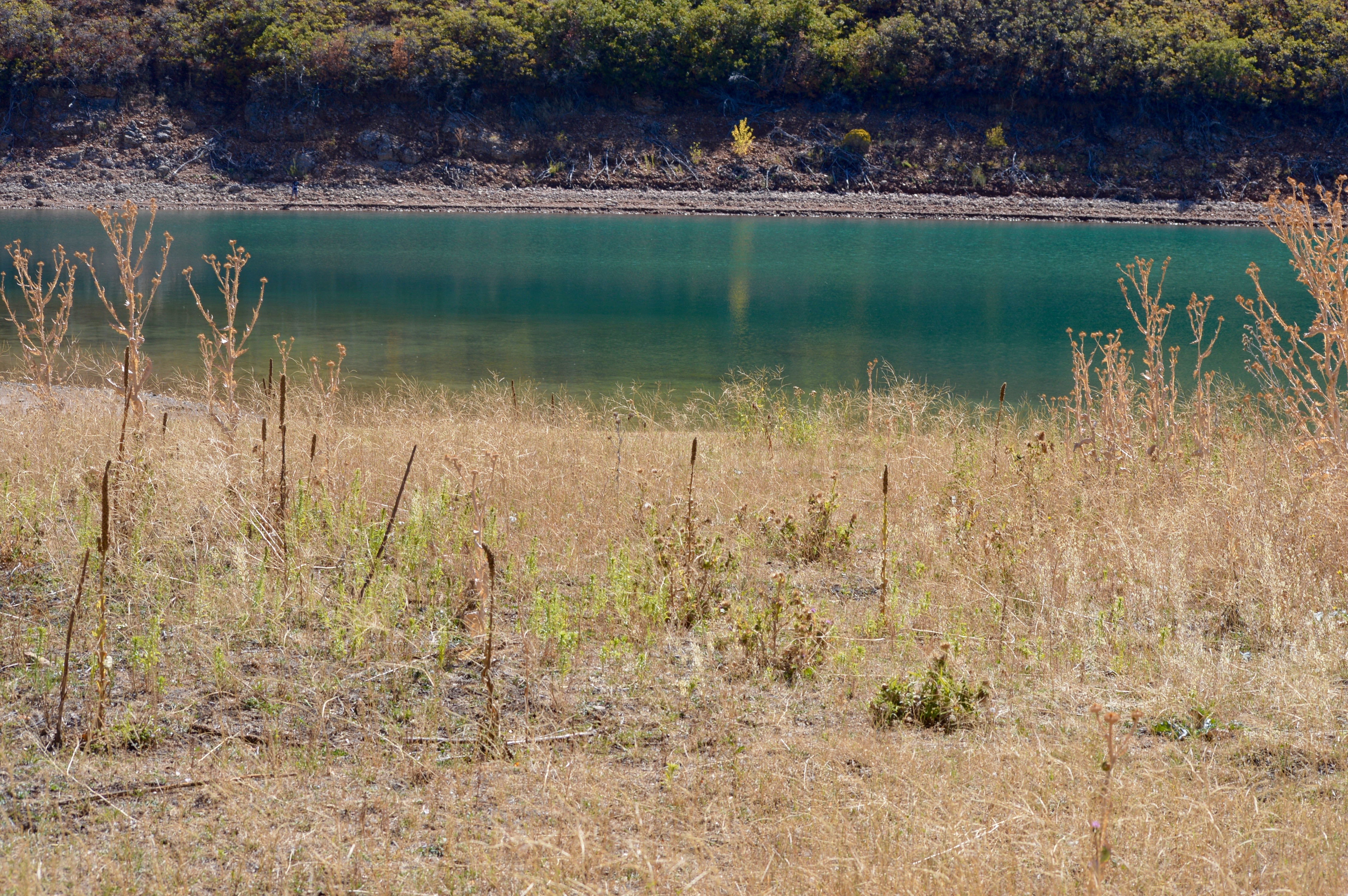 This was where Little Dell Station used to sit, the building is no longer there